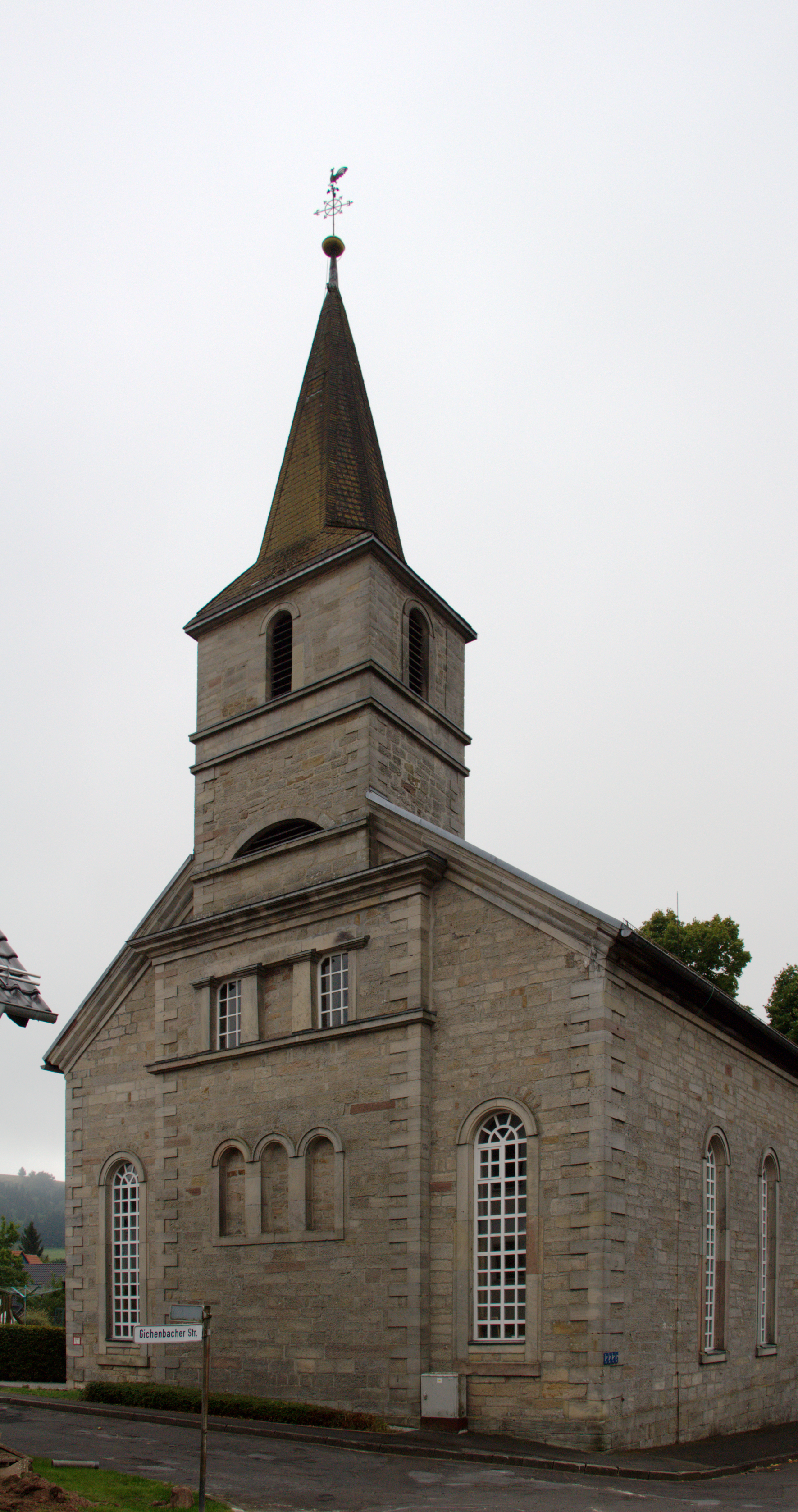 Protestant Church in Dalherda, Gersfeld, Hesse, Germany